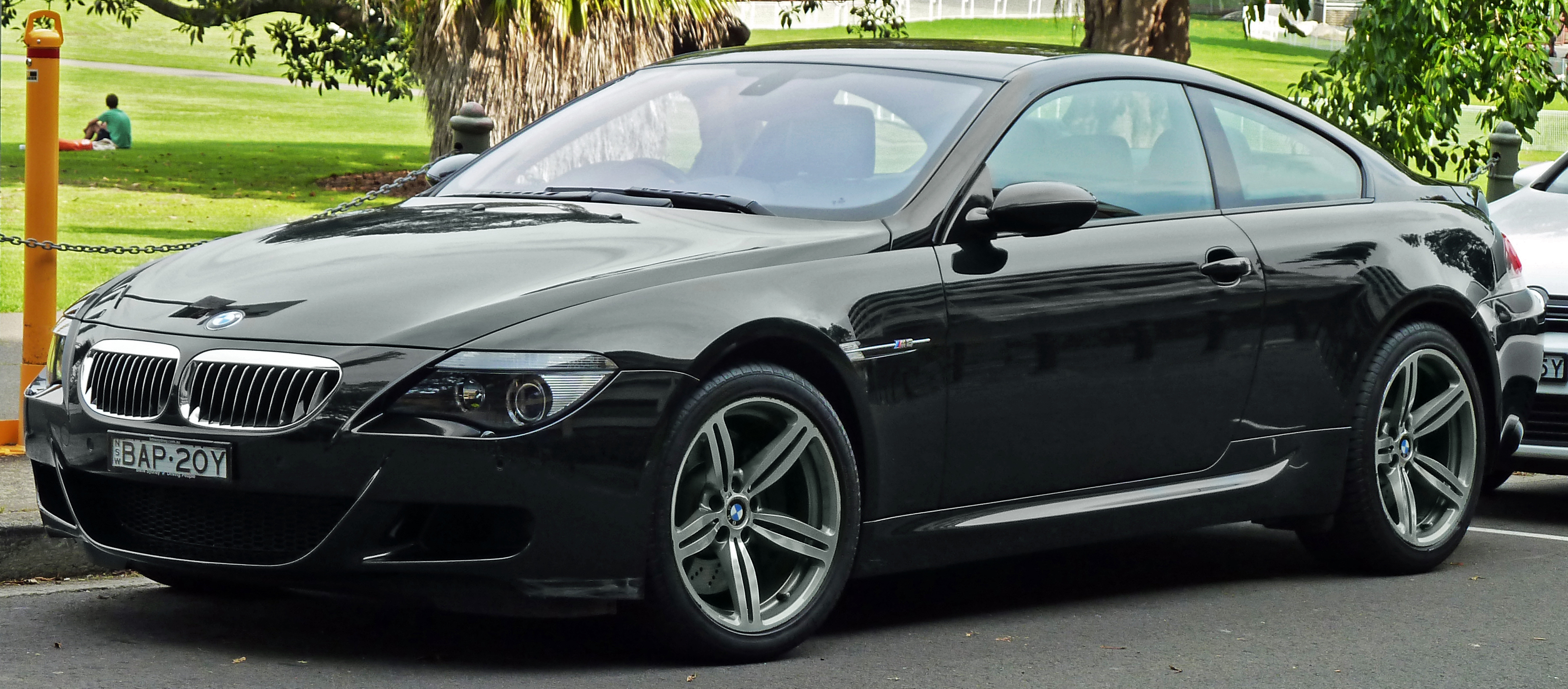 2005–2010 BMW M6 (E63) coupe. Photographed in Sydney, New South Wales, Australia.